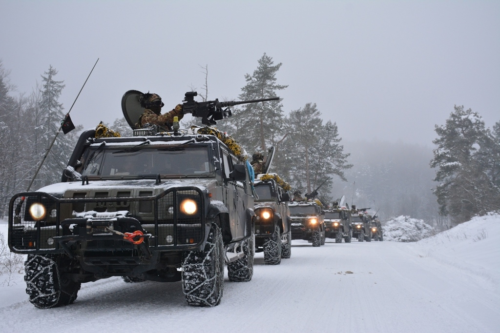 Italy's Brigata Bersaglieri Garibaldi maneuvers through Hohenfels Training Area during Exercise Allied Spirit at 7th Army Joint Multinational Training Command, Germany, Jan. 23, 2016. Exercise Allied Spirit includes more than 2,400 participants from seven NATO nations, and exercises tactical interoperability and tests secure communications within Alliance members and partner nations. (Photos Courtesy of Garibaldi Brigade)